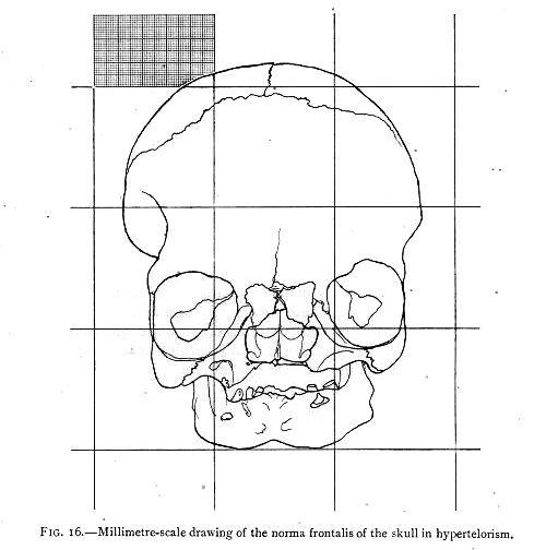 Skull with hypertelorism.